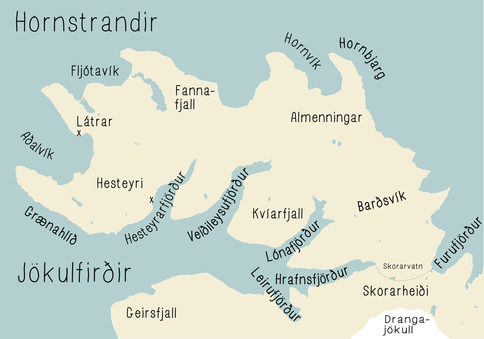 Map of Hornstrandir and Jökulfirðir (glacier fjords) nature reserve in Westfjords area in Iceland, showing location of the main fjords and the boundary of the natural reserve on Skorarheiði. Svg version of this file File:Hornstrandir og jökulfirðir.svg This map is drawn from a map from OpenStreetMap with CC-BY-SA licence and map from Iceland